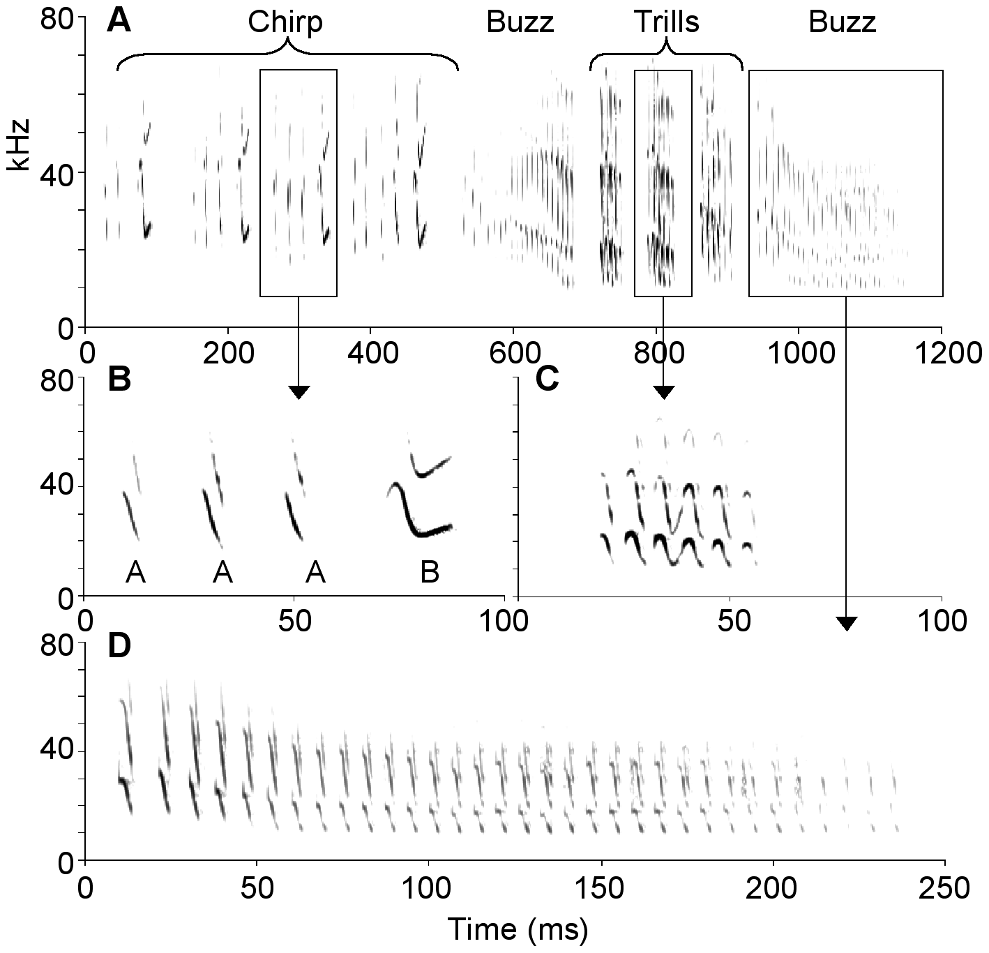 One complete song showing the three types of phrases: chirp, trill, and buzz (A). Expanded section of a chirp phrase showing one motif which is composed of two types of syllables: type A and type B (B). Expanded section of a trill (C). Expanded section of a buzz (D). This song is a chirp-buzz-trill-buzz song type.